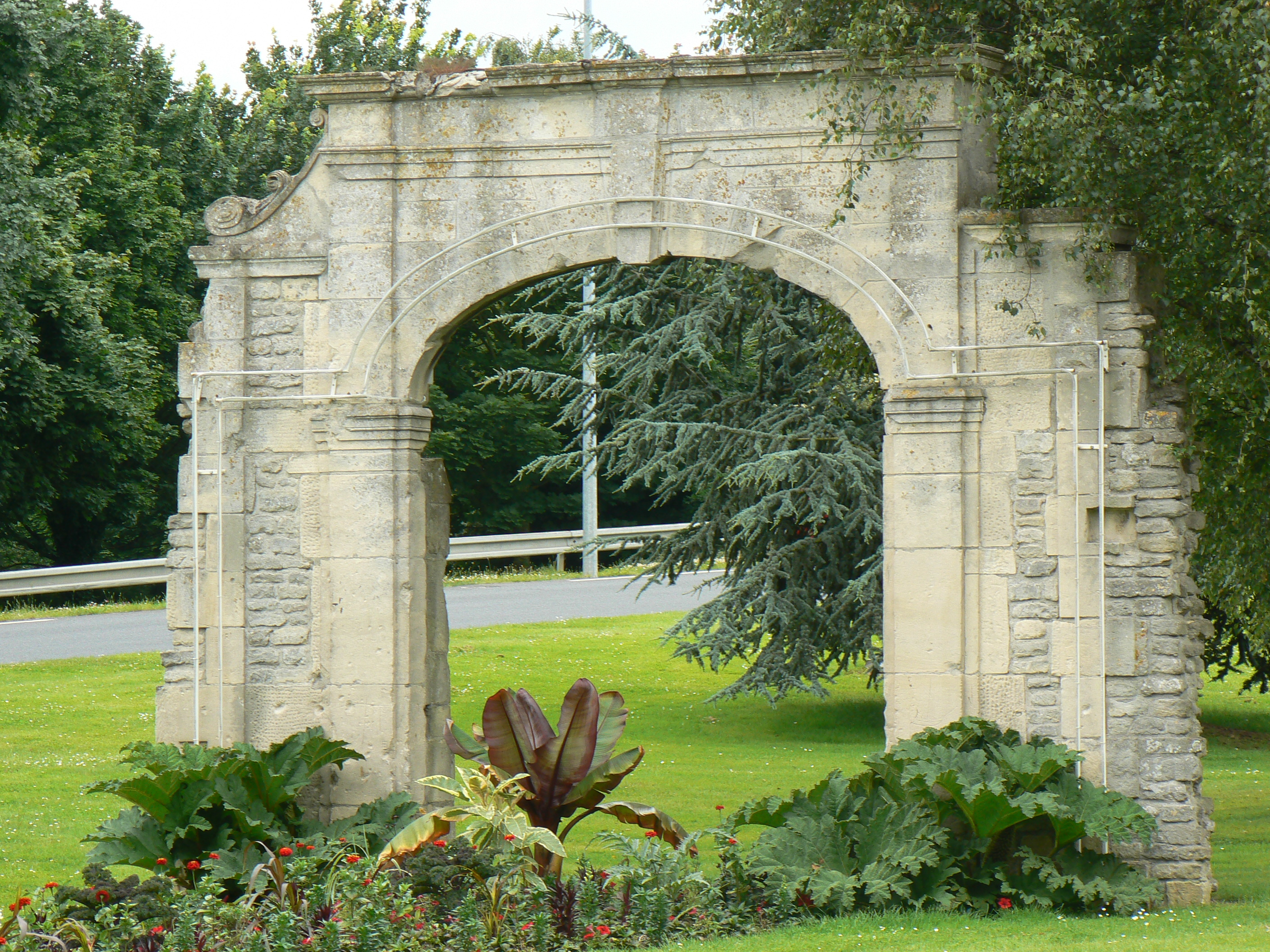 Remains of the door "clos de la delle du Mont" in Hérouville saint Clair (Calvados, Normandy, France)